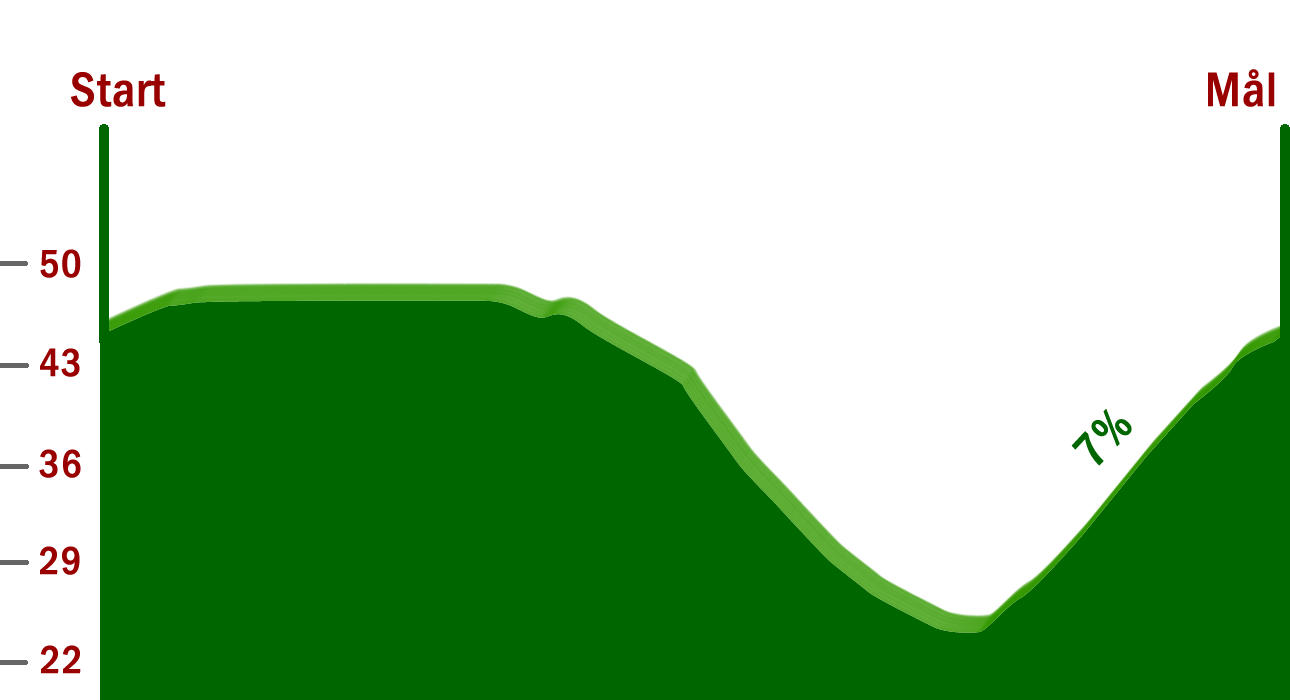 the graphic is created by myself.